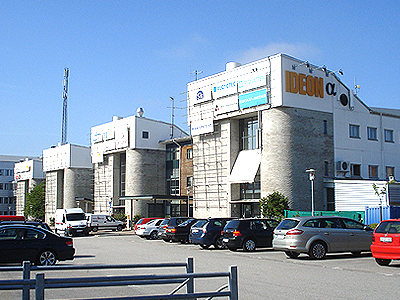 Ideon Science Park, Alfahuset, Lund, Sweden